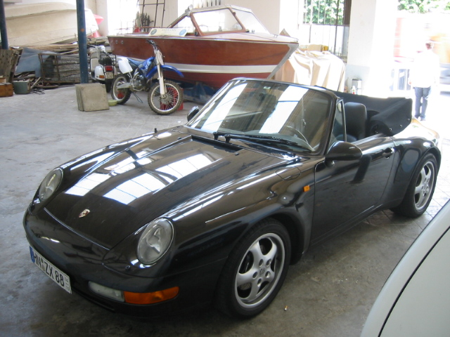 Porsche 911 Cabriolet (Type 993)